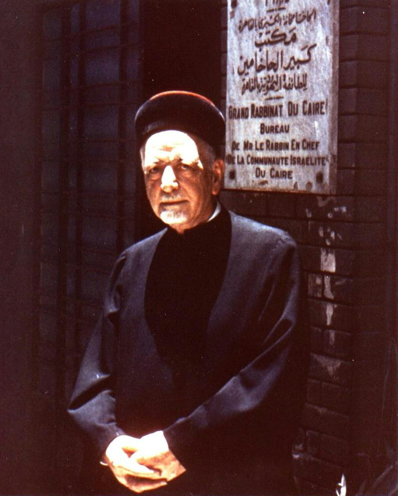 Hakham Haim Moussa Douek, the last Chief Rabbi of Egypt. Depicted person: Haim Moussa Douek